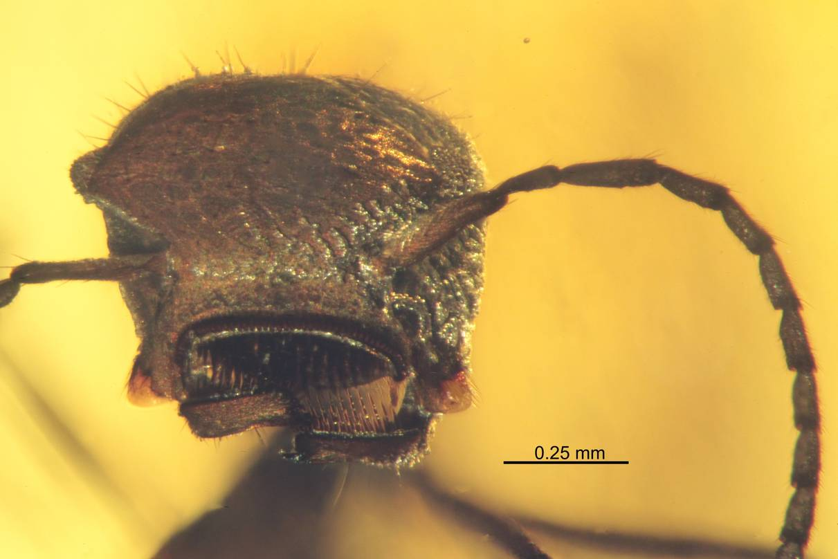 Close-up view of the Zigrasimecia ferox holotype head. Specimen JWJ-Bu18a Burmese amber, Cenomanian (99mya), Hukawng Valley, Myanmar